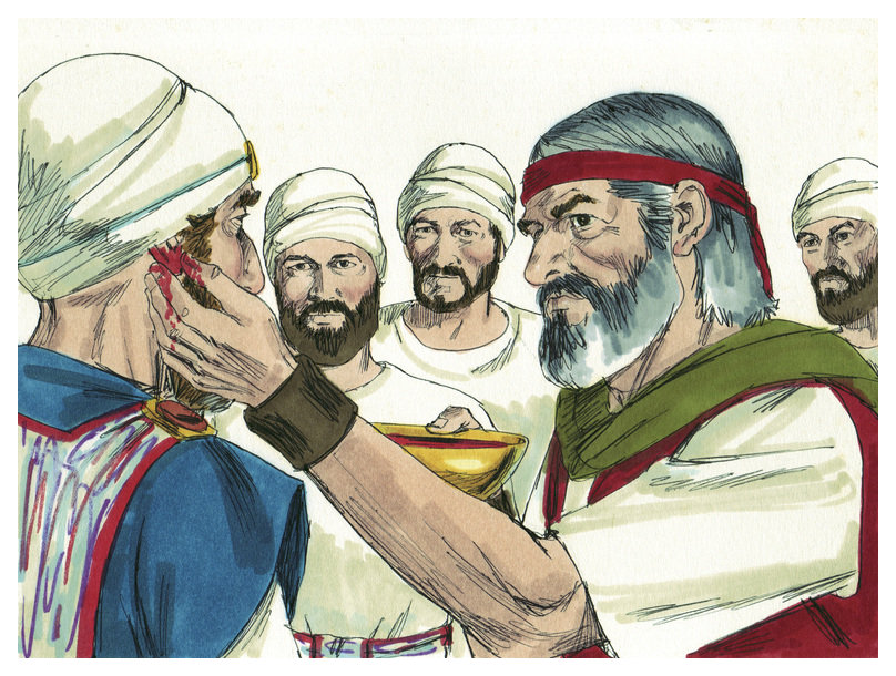 Biblical illustration of Book of Leviticus Chapter 8